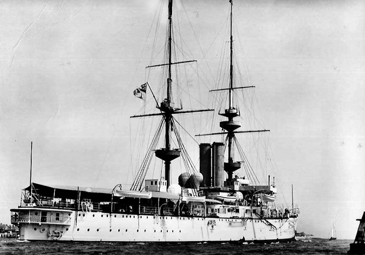 British battleship HMS Renown (1895)